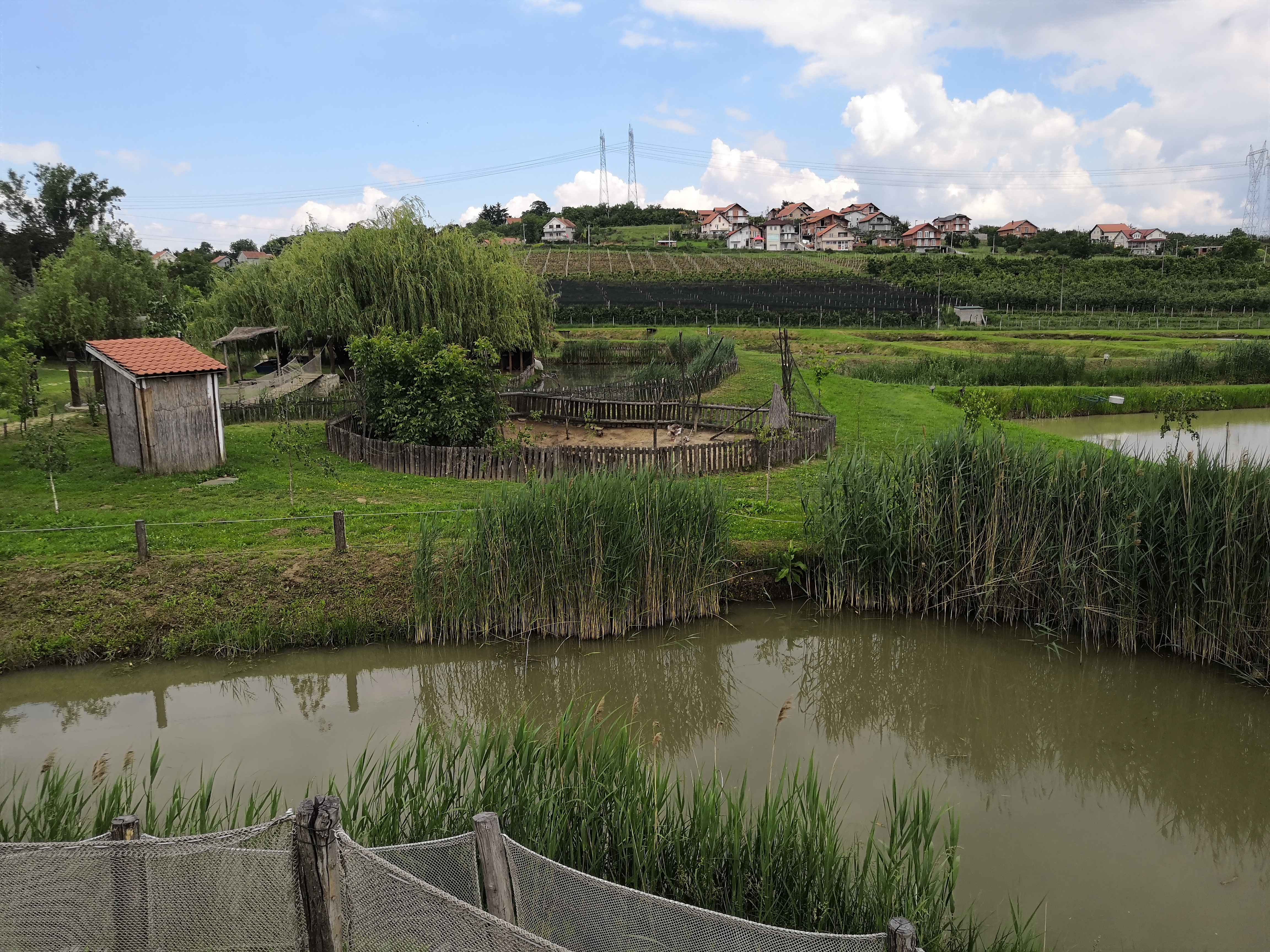 Radmilovac